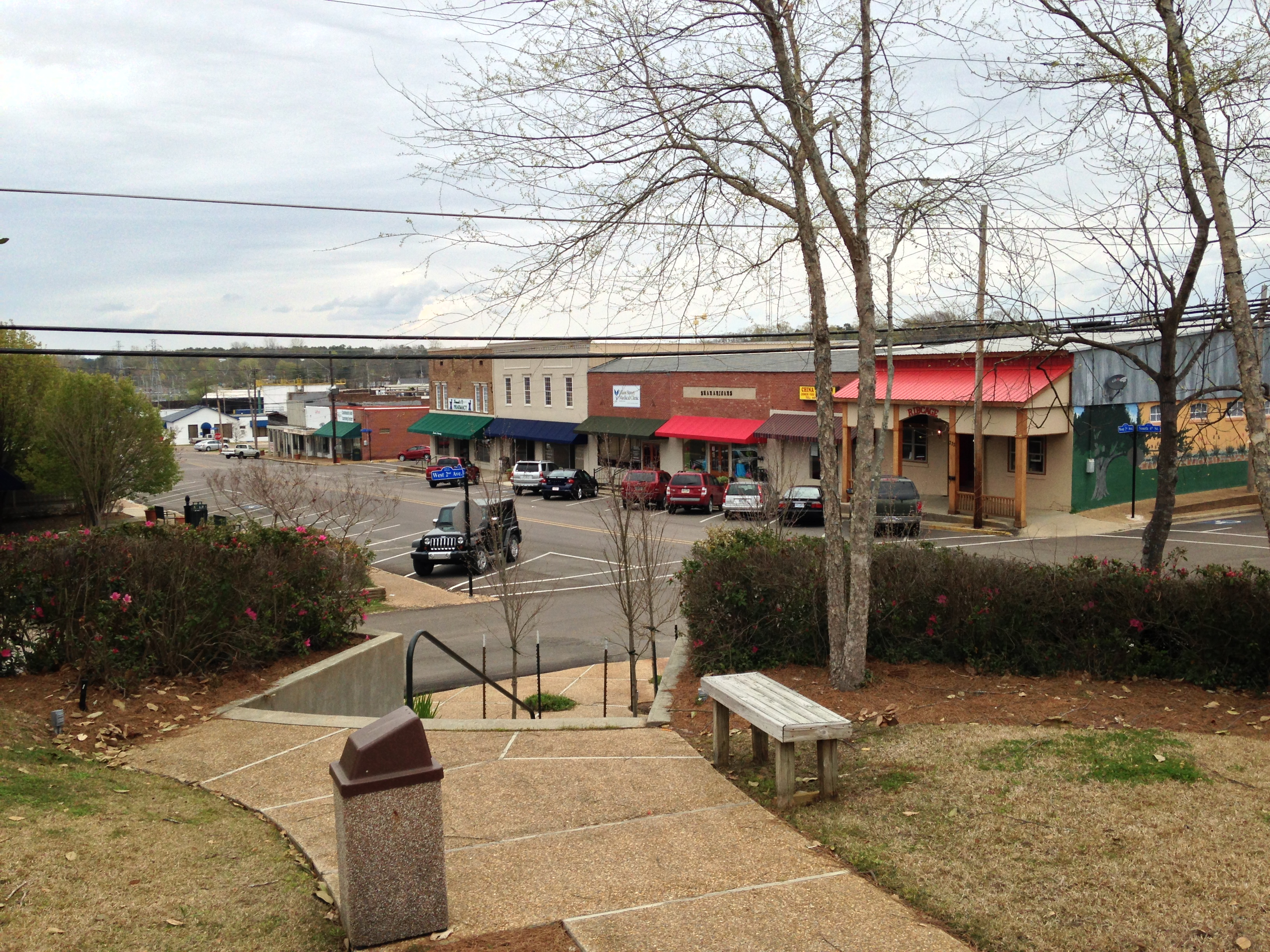 Morton, Mississippi We had dinner at the Rib Cage.